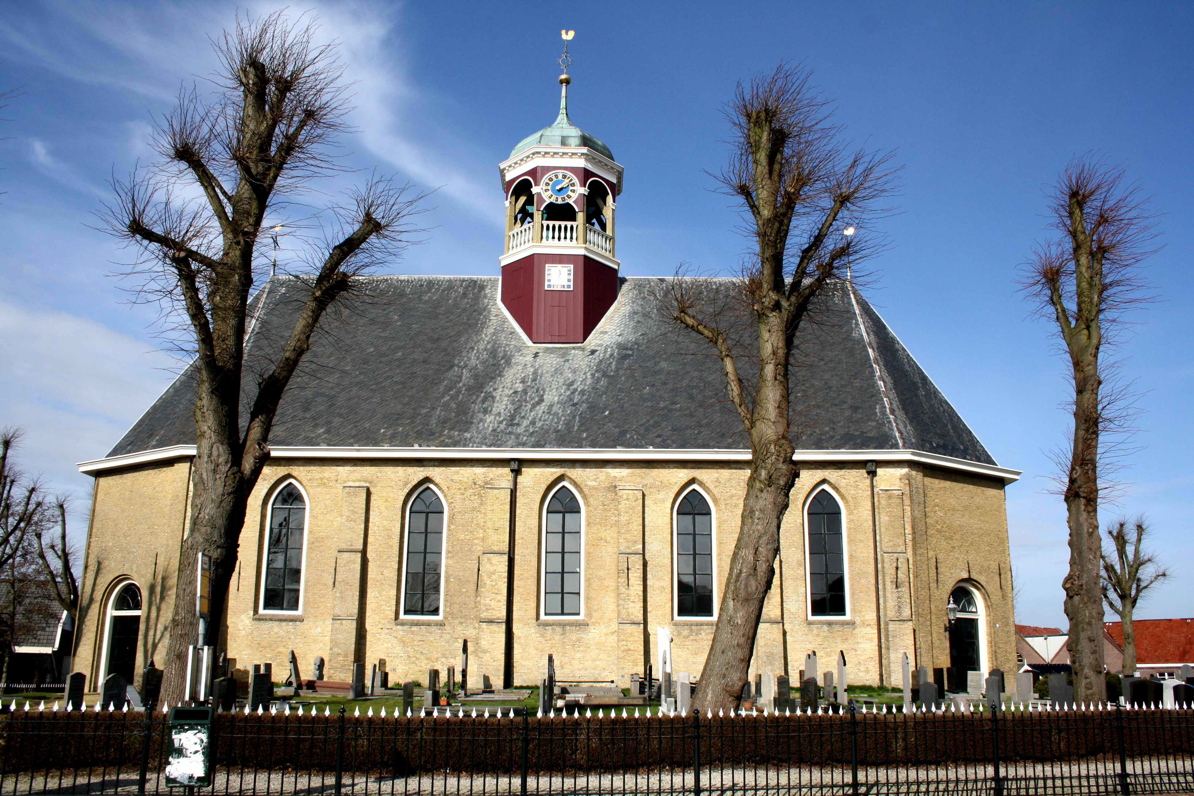 Witmarsum in Friesland - Church build in 1633